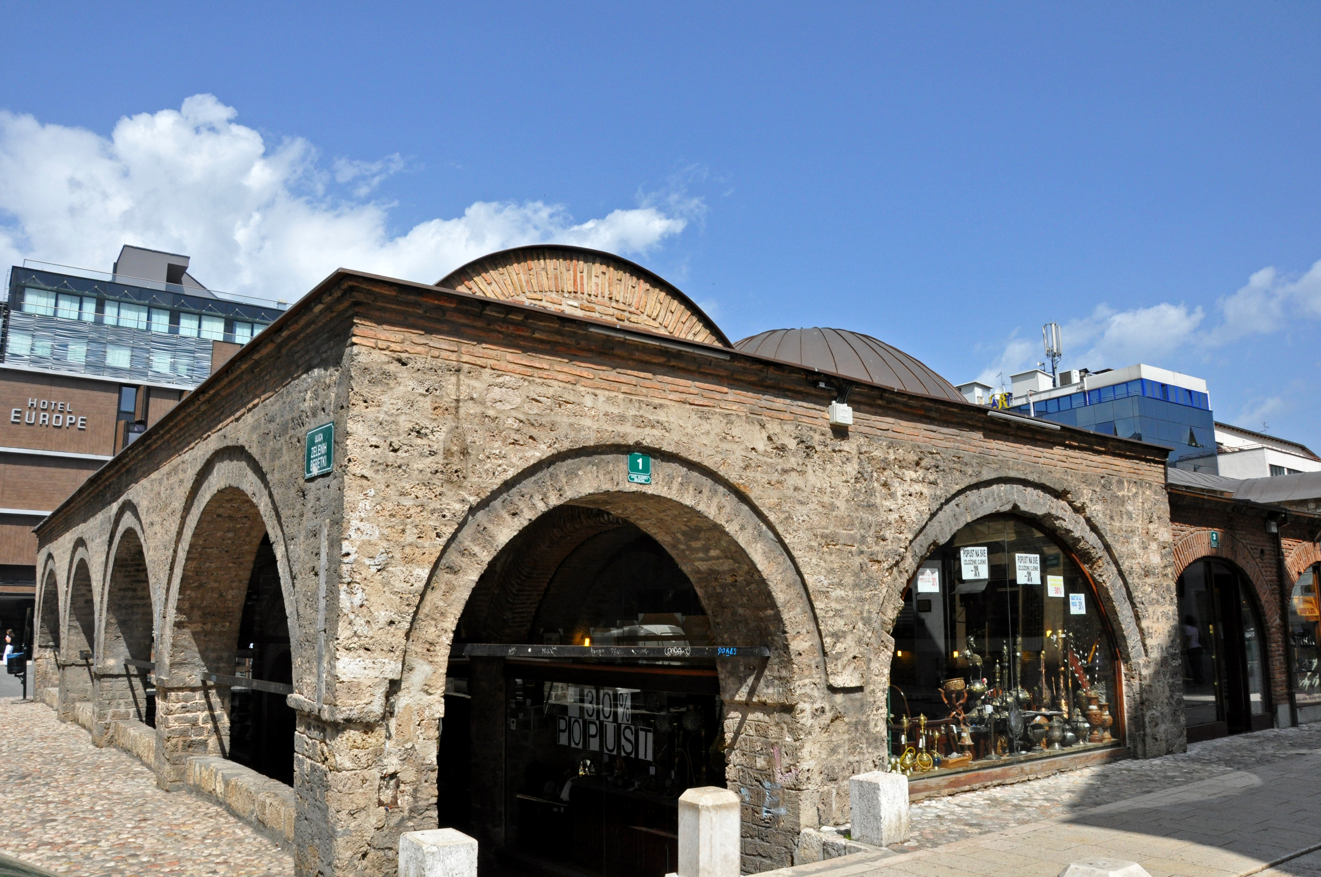 It was built around 1540 and is filled with small boutiques.